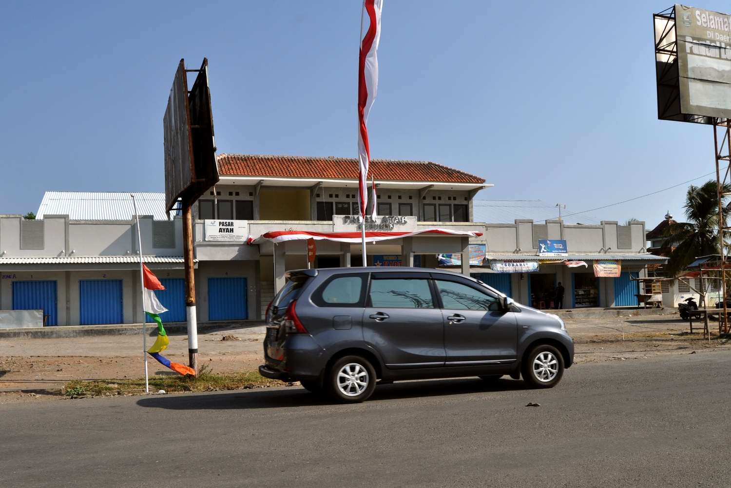 Ayah Village Market, Kebumen, Central Java.